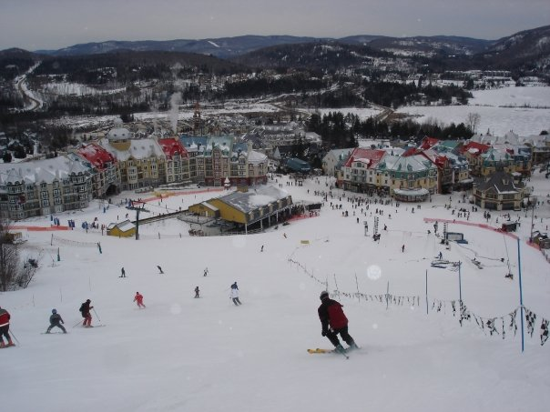 View from ski run of Mont-Tremblant village